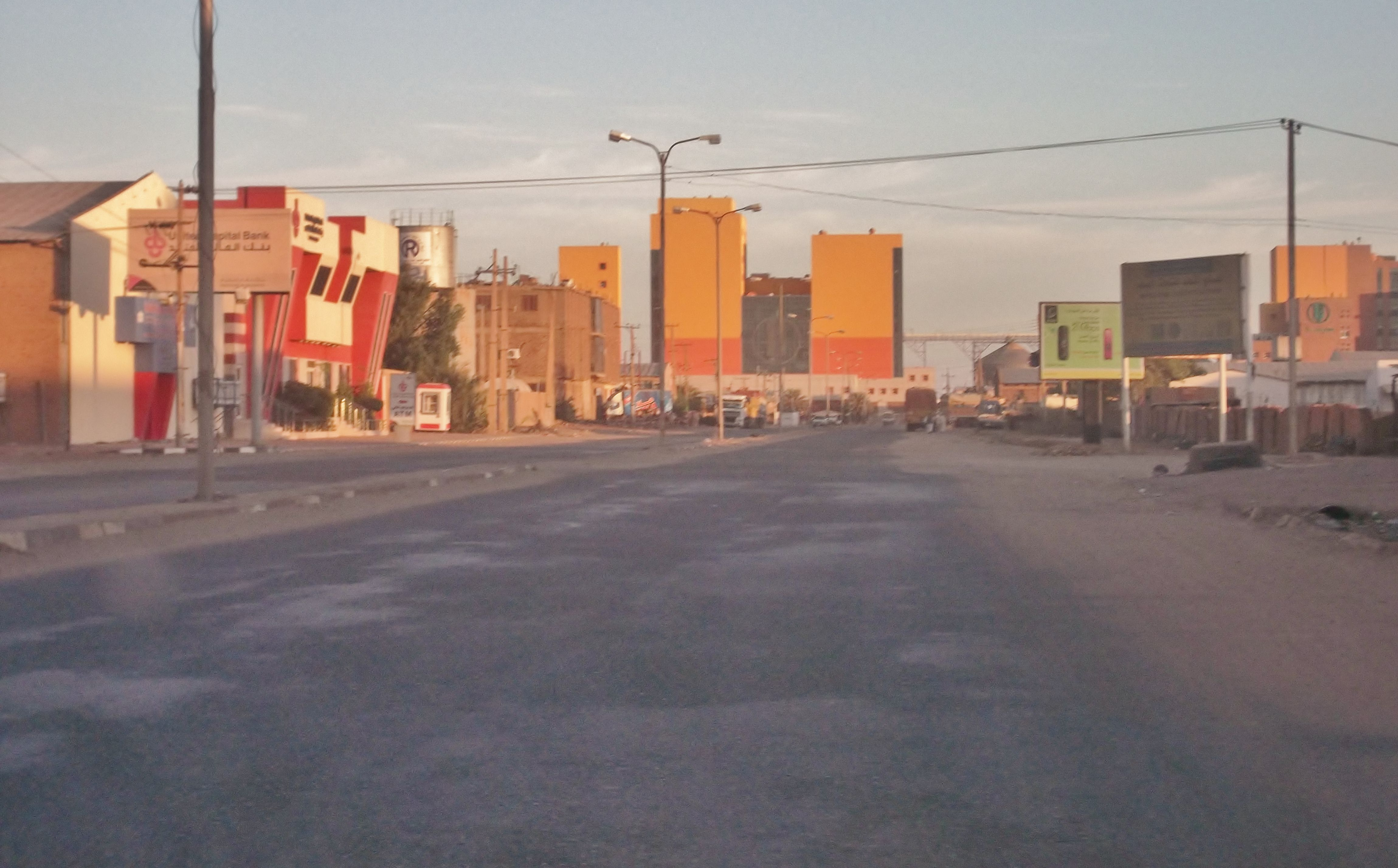 شارع الصناعات – الخرطوم بحري